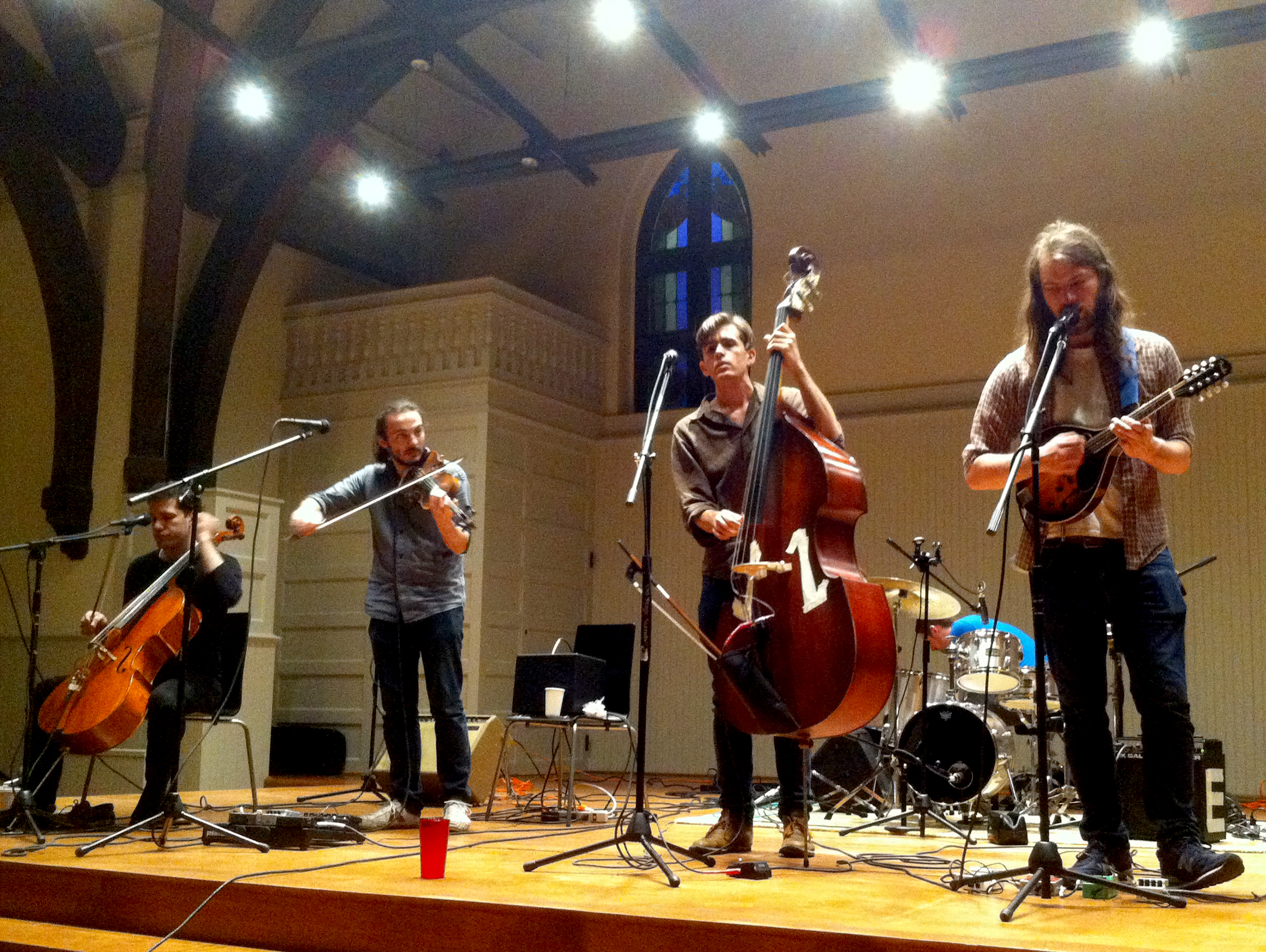 Miracles of Modern Science perform at The Haven in Charlottesville, VA in March 2012